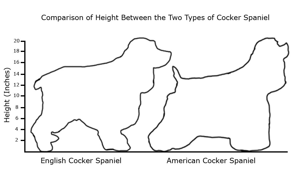 A graph to show the height difference between the two types of Cocker Spaniel. Height is measured at withers.